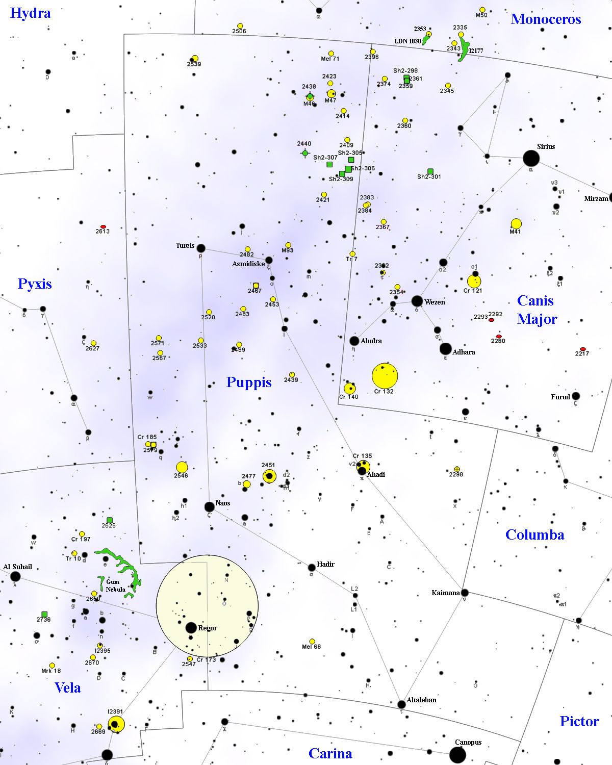 Puppis constellation map, with DSOs